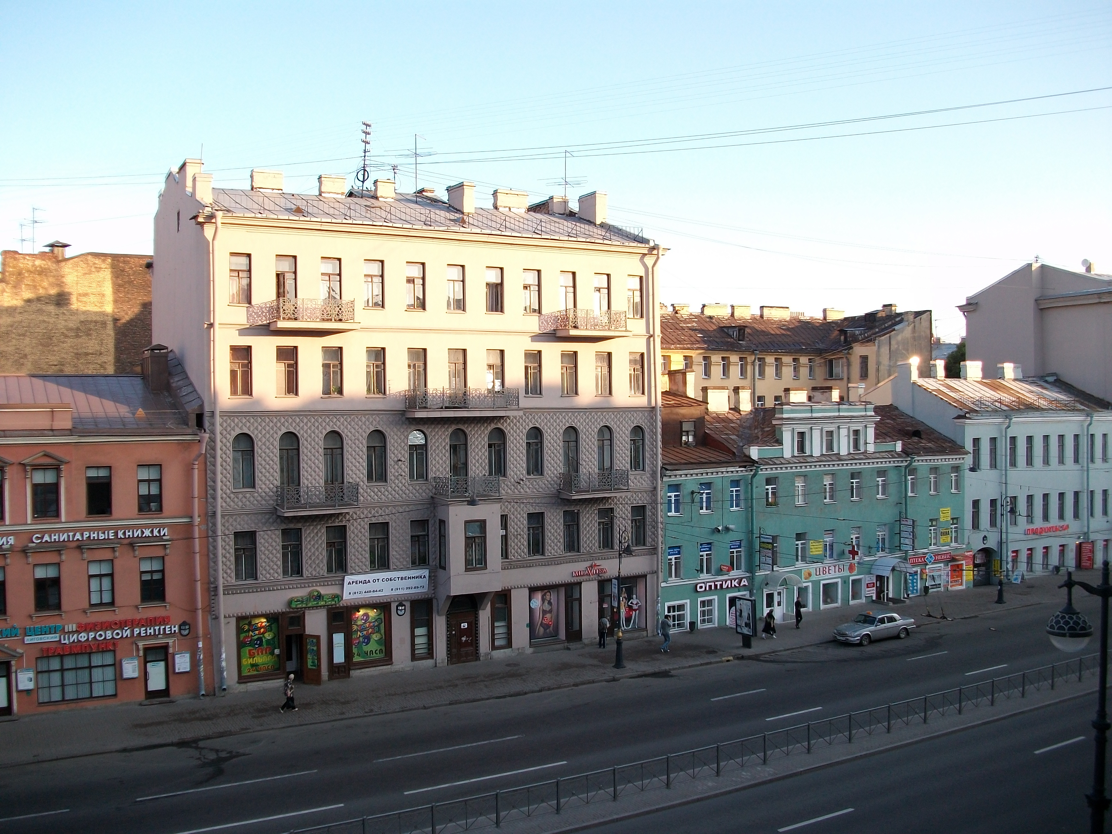 Ligovsky prospect, Saint Petersburg, Russia